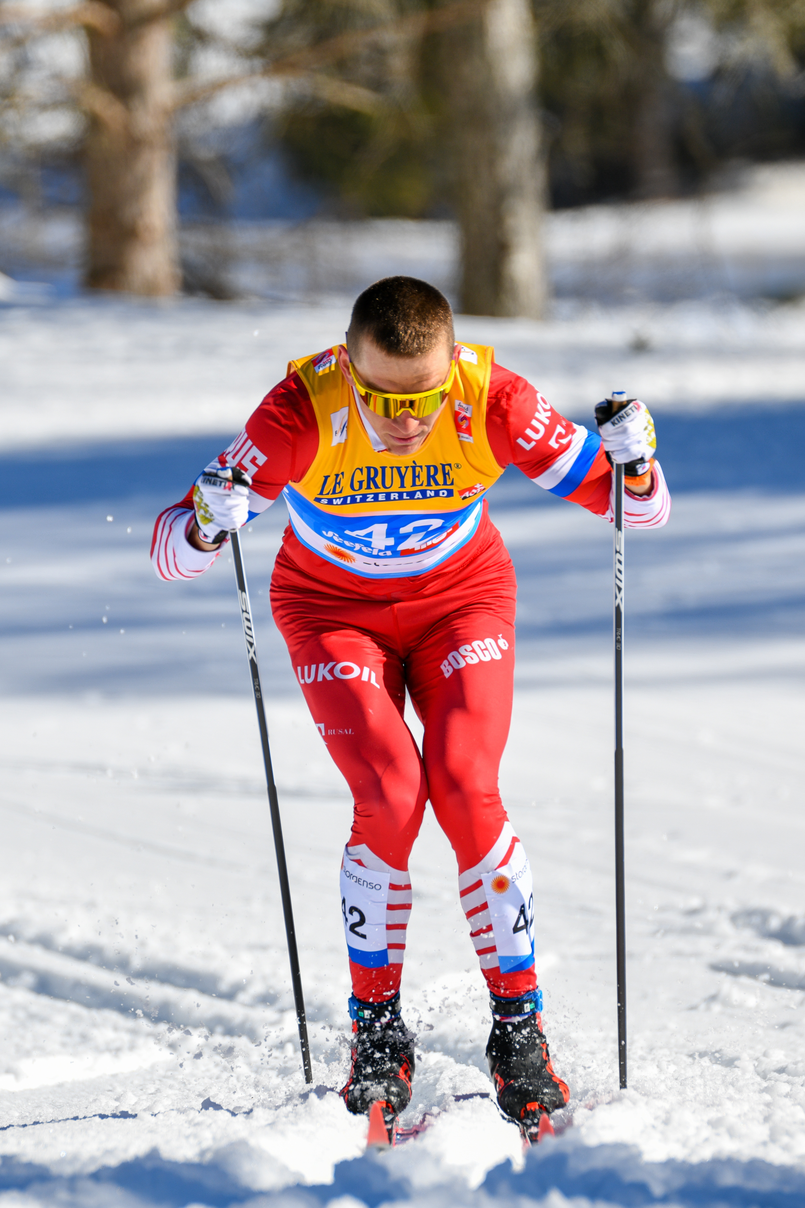 FIS Nordic World Ski Championships Seefeld 2019 - Men 15km Interval Start Classic. Picture shows Alexander Bolshunov (RUS).